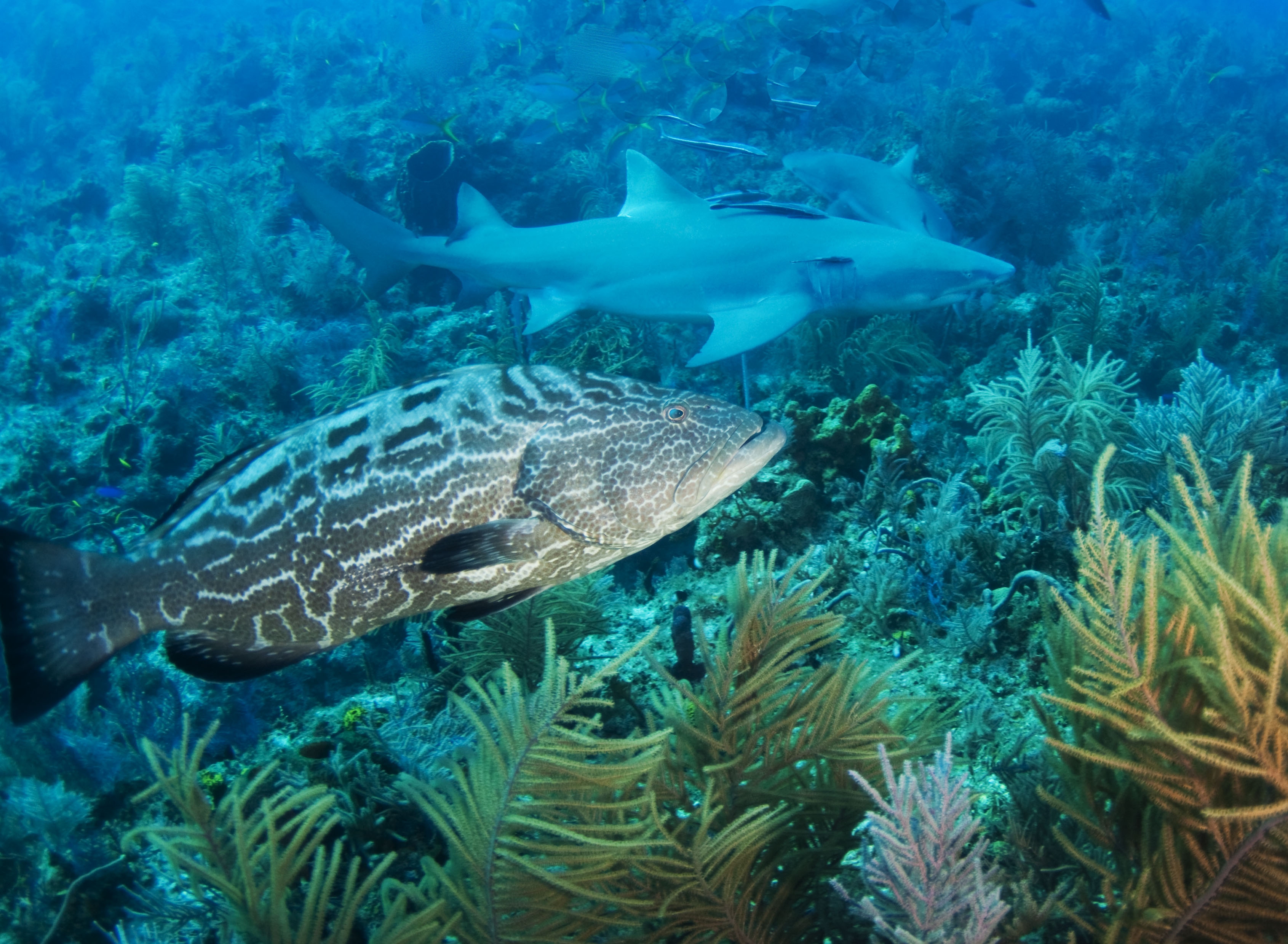 Nassau grouper